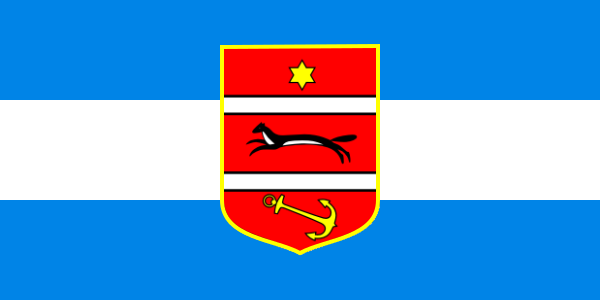 Flag of Virovitica-Podravina County, Croatia.